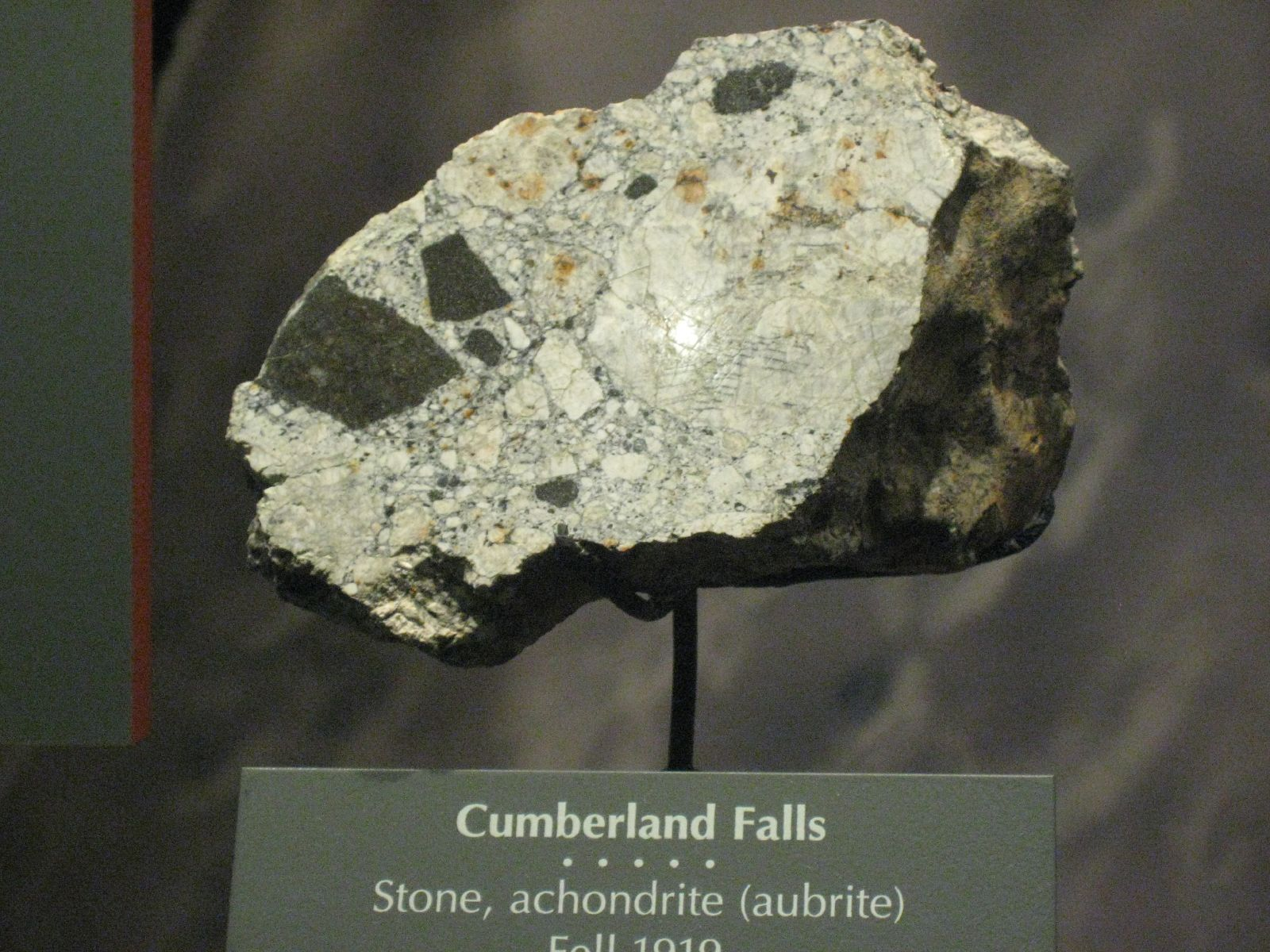 Cumberland Falls meteorite. Aubrite. Fell 1919. Whitley County, Kentucky